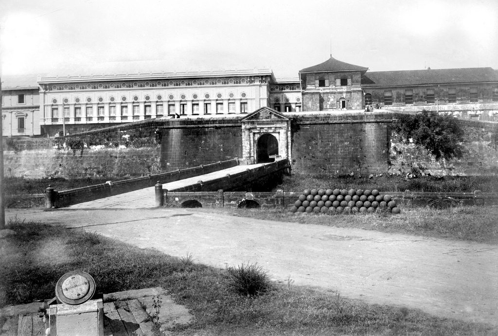 Santa Lucia Gate, Intramuros, Manila, Philippines, Late 19th or early 20th Century. Original photograph is in the University of Michigan Special Collections Library.